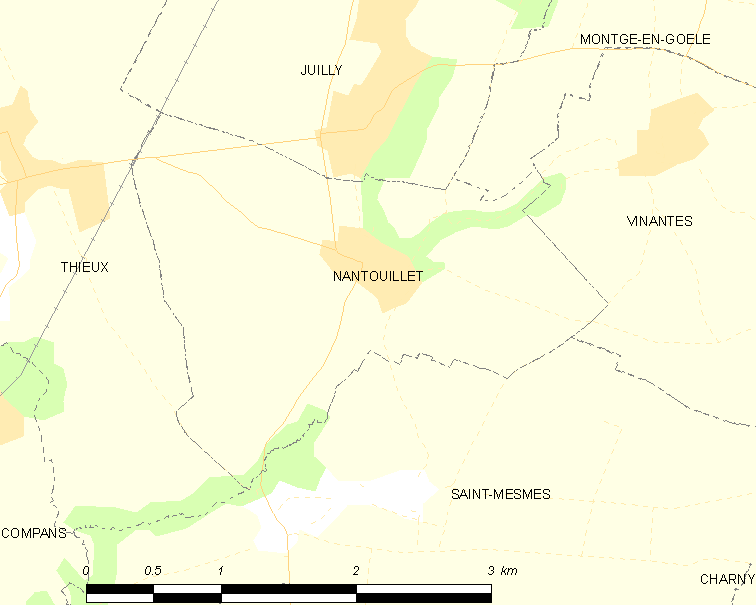 Map of French municipality Nantouillet